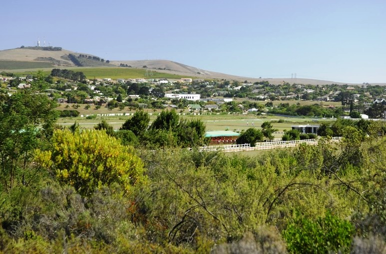 Durbanville Nature Reserve. A tiny reserve next to the racecourse. Cape Town.